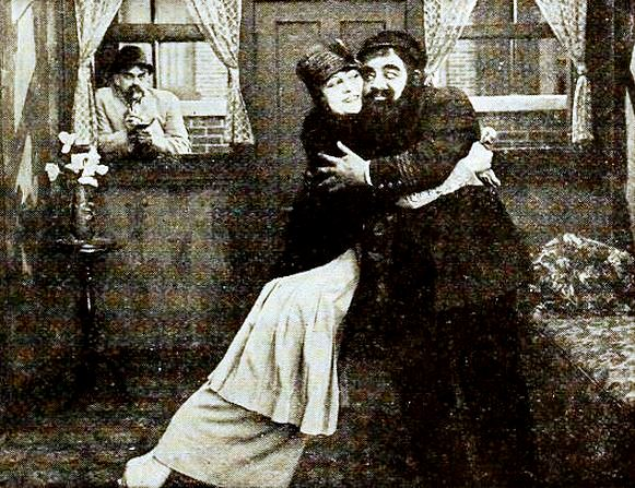 Still from the American comedy film Love's False Faces (1919) with Eddie Gribbon (in window), Charlotte Mineau, and Kalla Pasha, on page 27 of the August 1919 Film Fun. In this scene, the detective is in the boarding house window, while the "vampish" Charlotte finds her husband, giving the happy ending to the film.